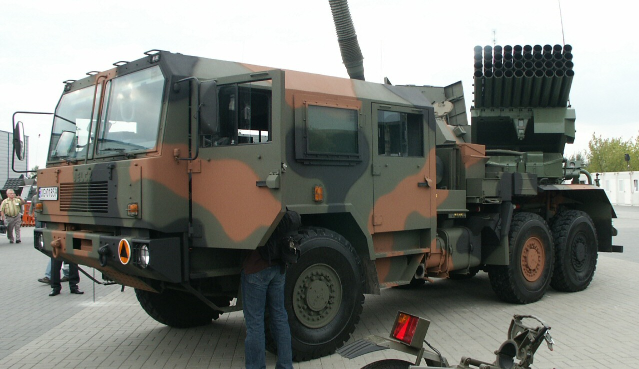 Polish WR-40 Langusta 122mm MRL.